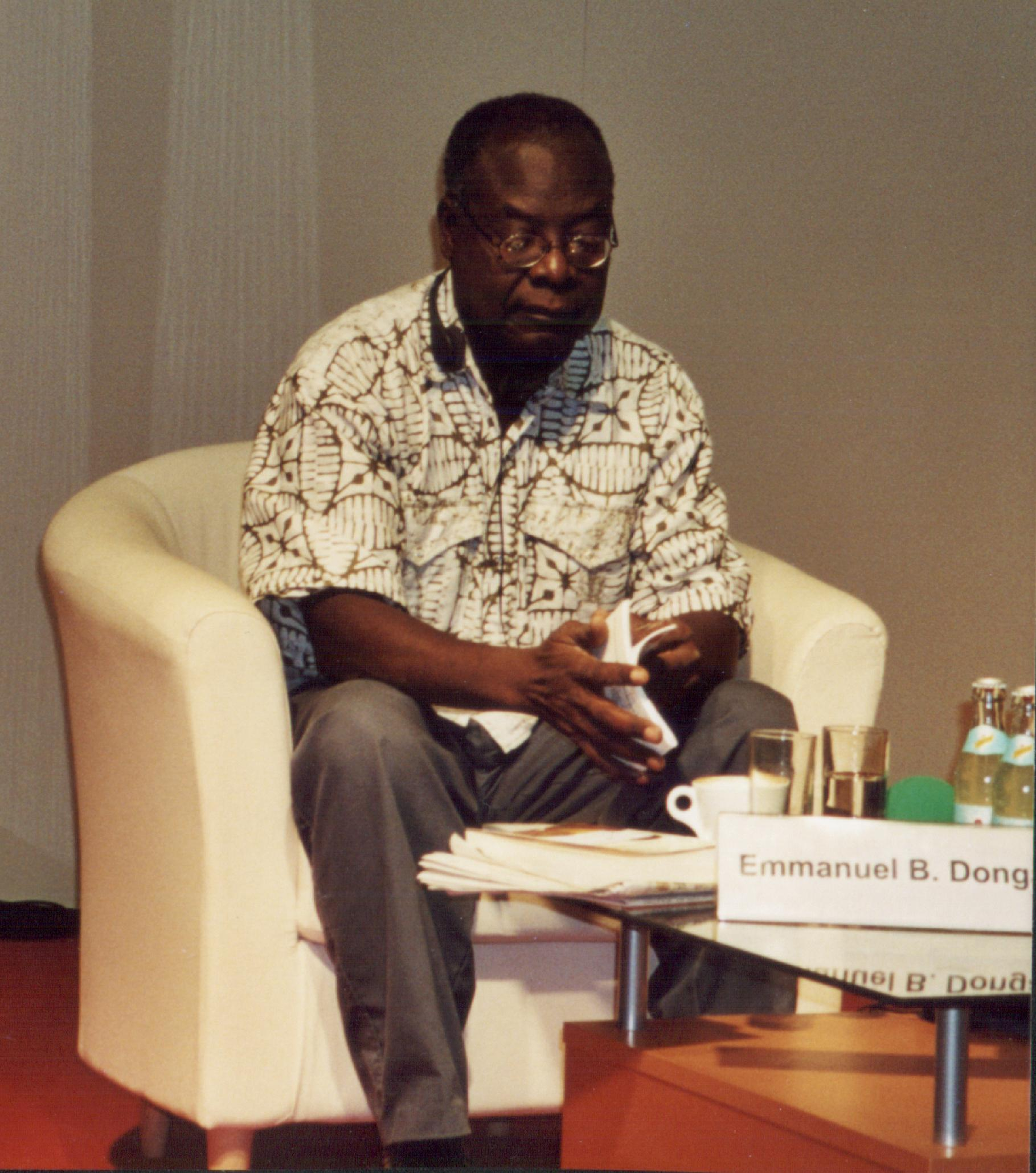 Emmanuel Dongala during the Frankfurt Book Fair, Germany, 2003.